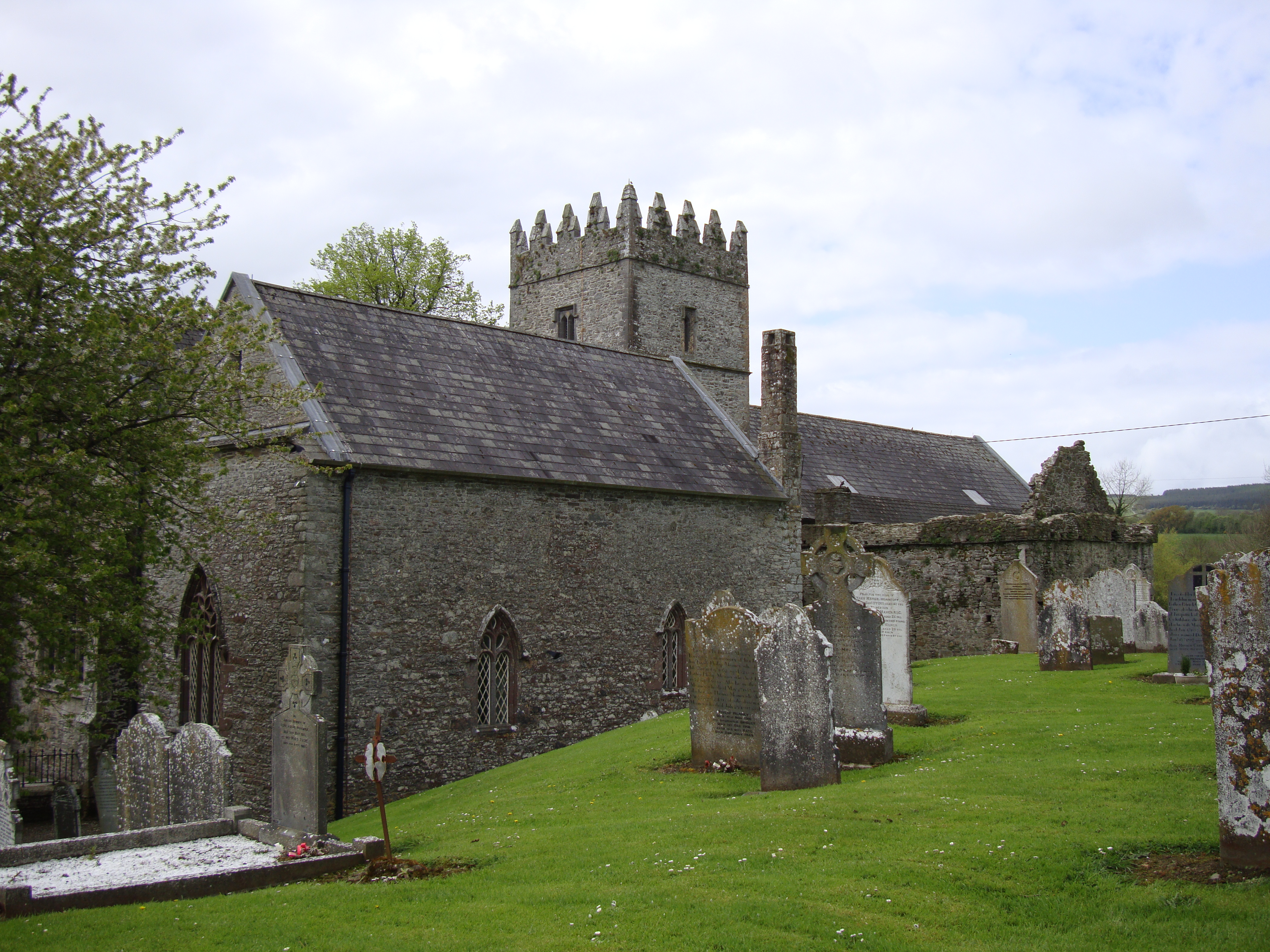 Photograph of Leighlin Cathedral, Co. Carlow, Republic of Ireland